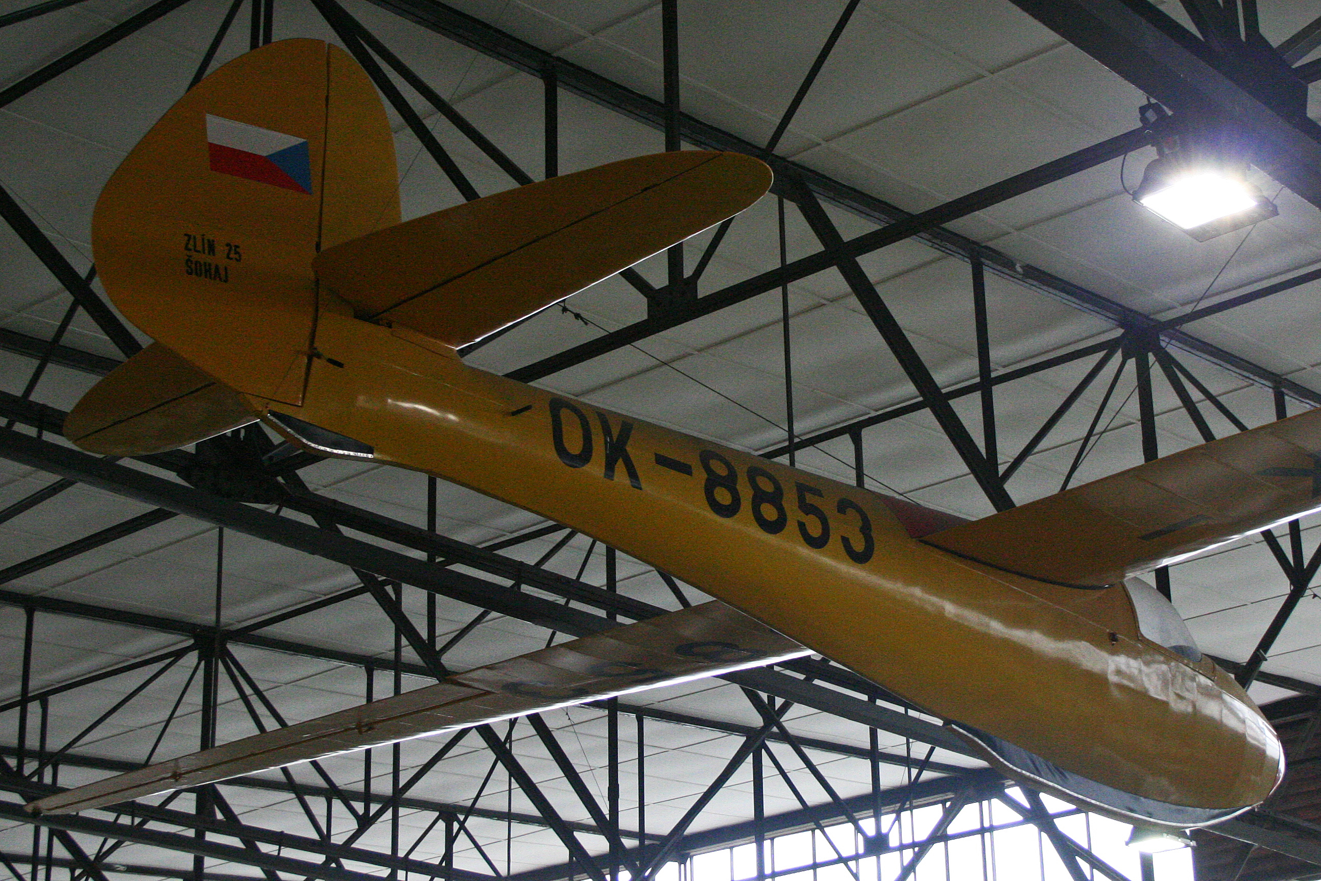 msn 62. On display in the Post War hangar, Kbely Museum, Czech Republic. 07-10-2012